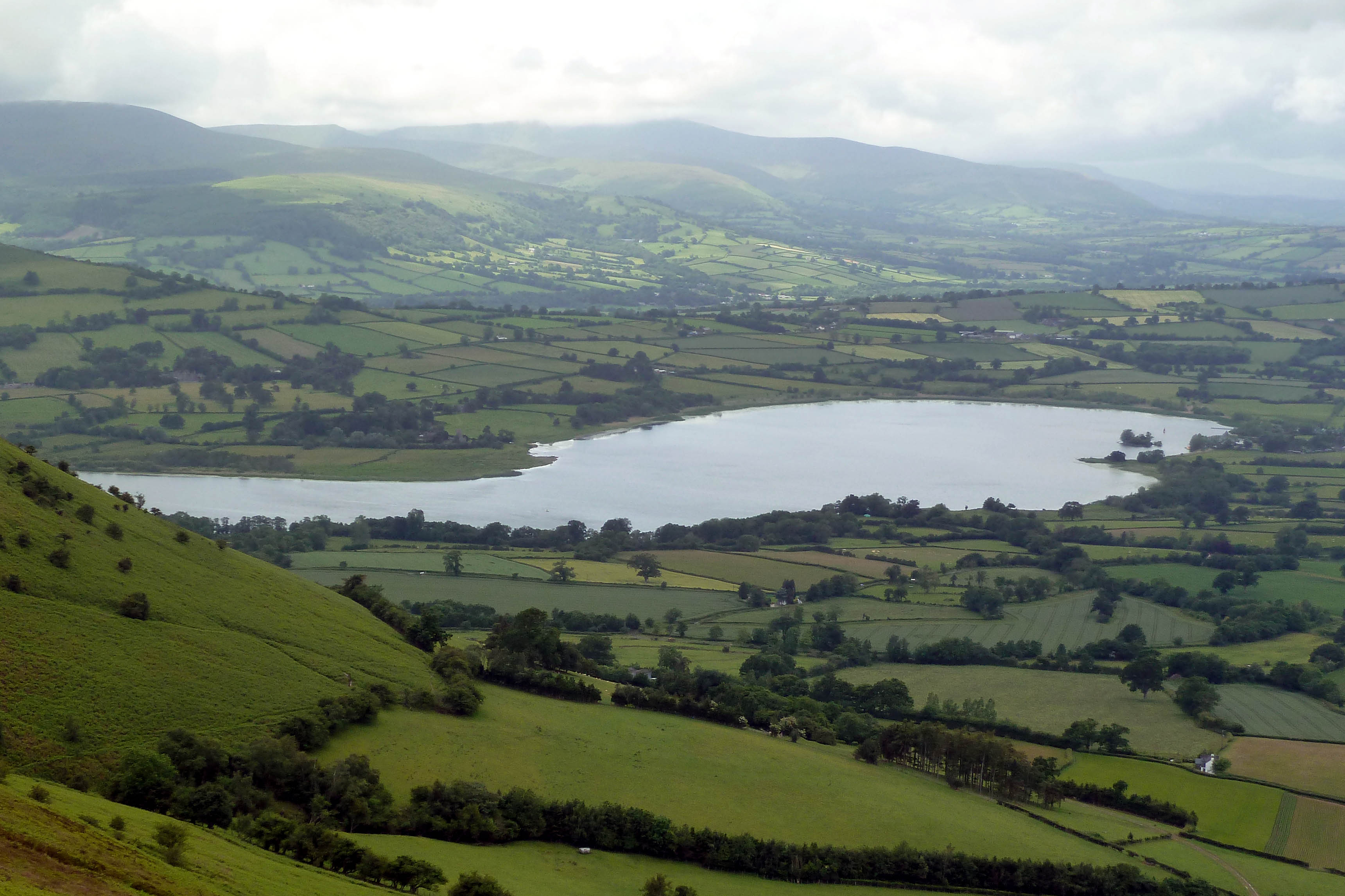 Llangorse lake viewed from Llangorse Mountain, South Wales